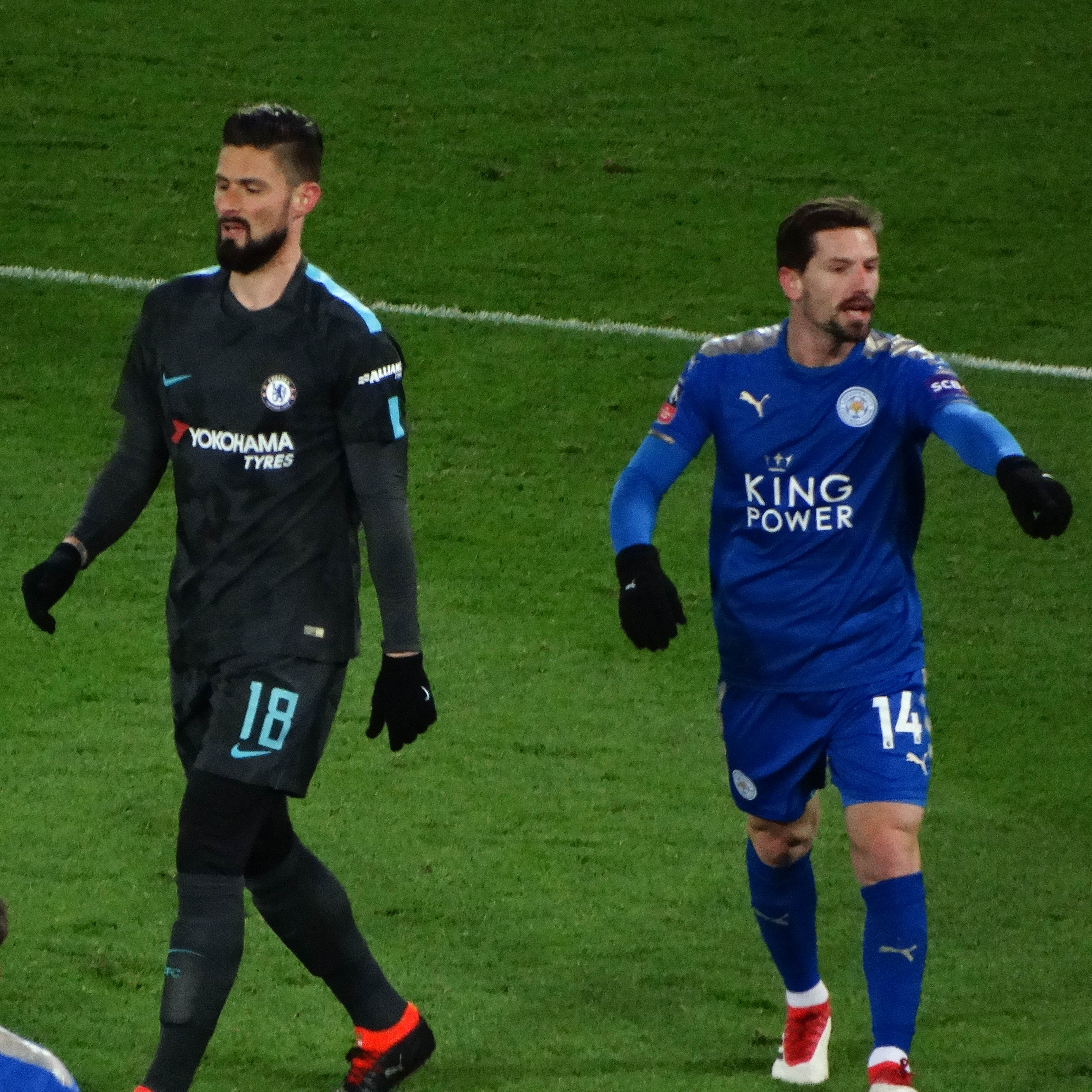 FA Cup QF 18.3.18